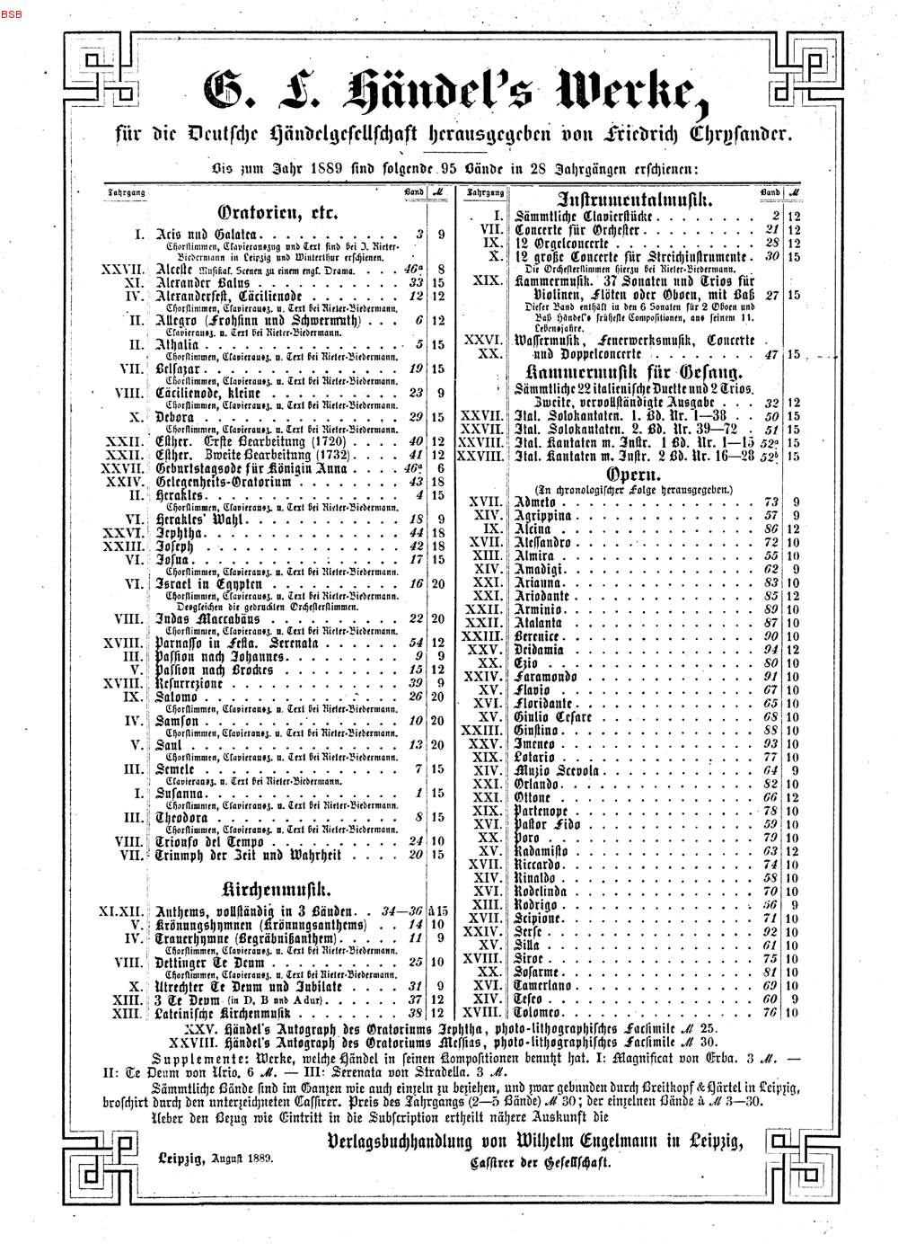 Catalogue of published works of Handel (taken from the last page of a 1889 publication of Chrysander).